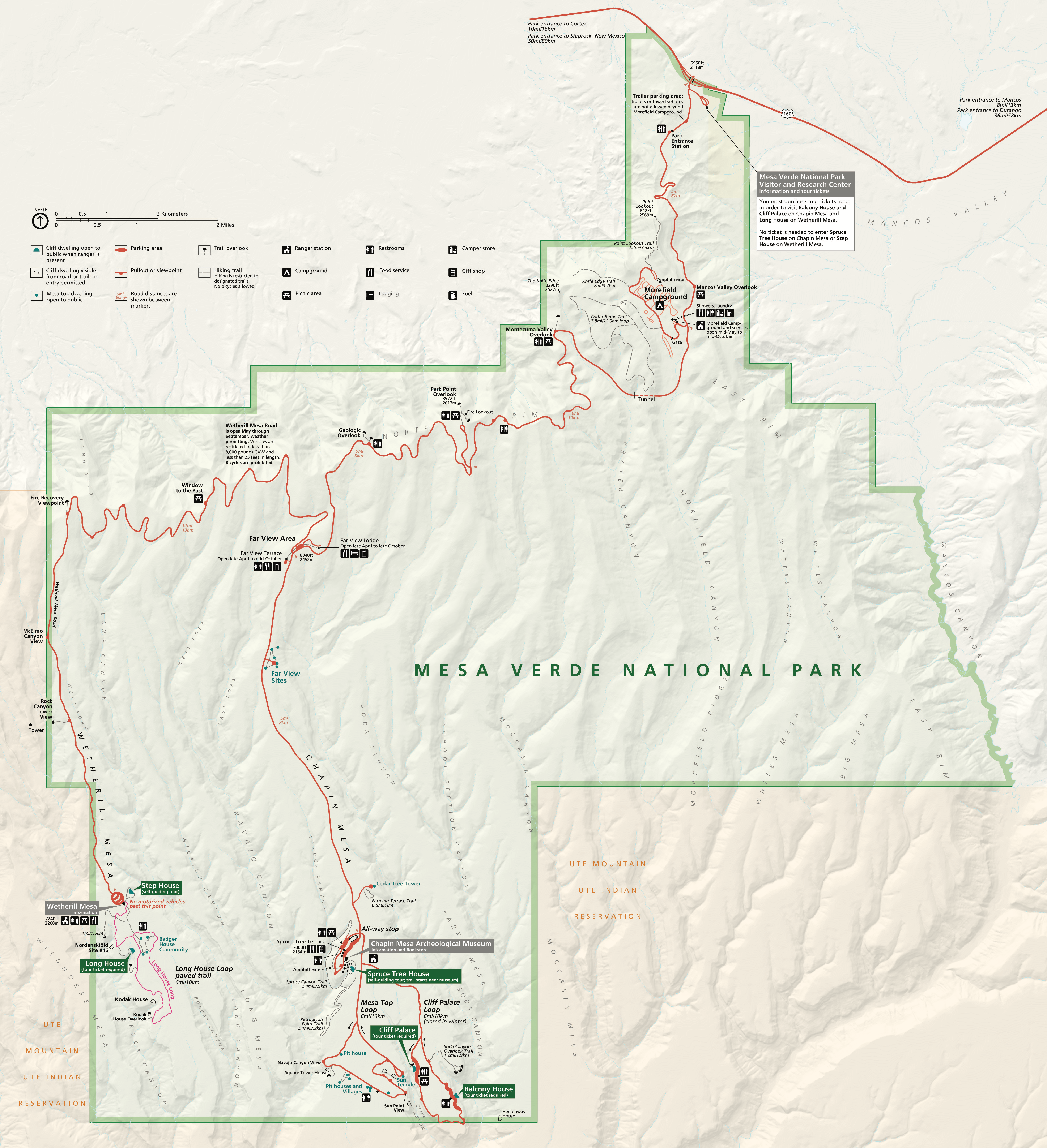 Mesa Verde park map by the National Park Service